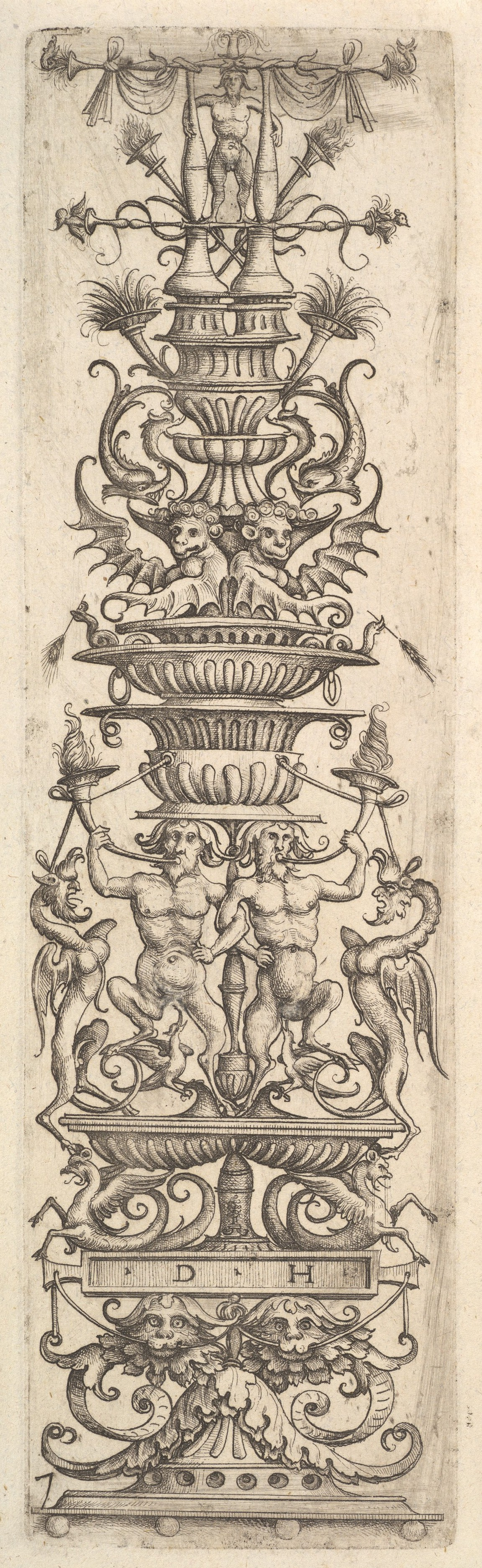 Print Ornament & Architecture; Prints